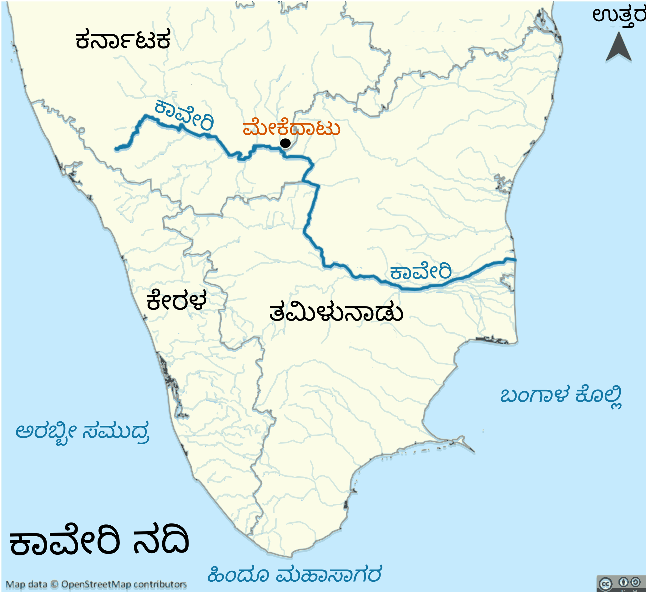 Mekedatu in Cauvery River basin in Kannada